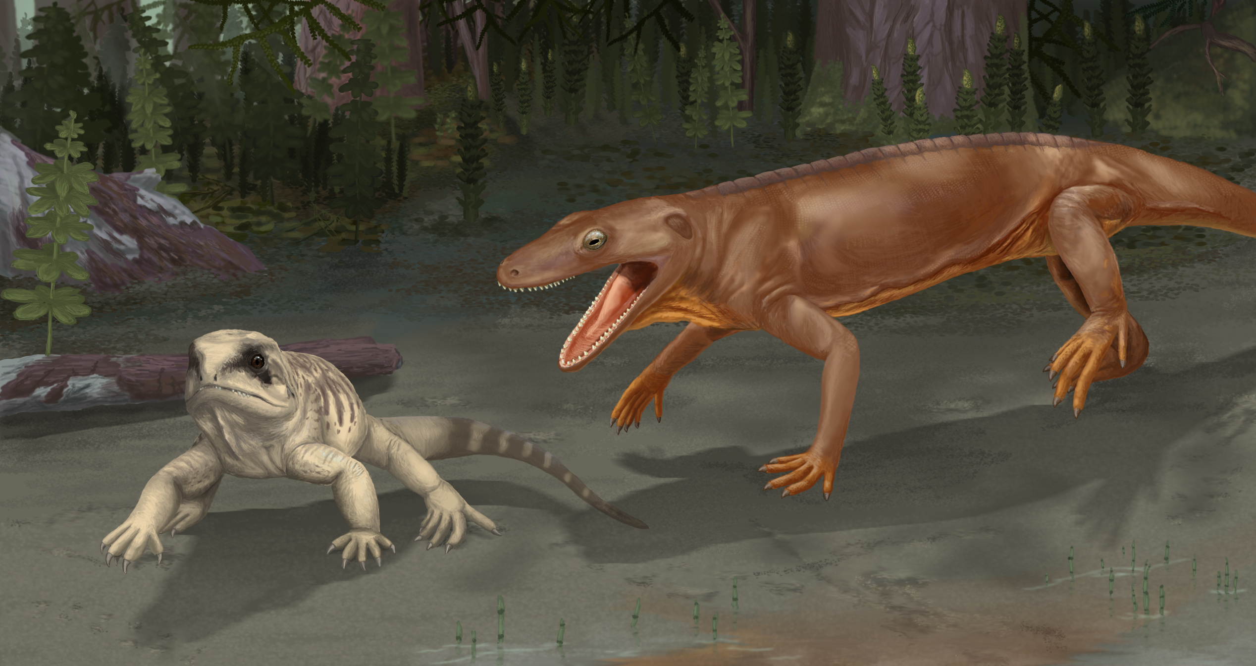 Life restoration of Varanodon agilis (left) and Nooxobeia gracilis (right). Nooxobeia based on specimen UCLA VP 3066, Figures 2 and 3 of "Nooxobeia gracilis, the Dissorophoidea and the Permian terrestrial radiations" by Everett C. Olson (Journal of Paleontology 46(1): 104-114). Varanodon based on Figure 6b of "A reevaluation of the enigmatic Permian synapsid Watongia and of its stratigraphic significance" by Robert R. Reisz and Michel Laurin (Canadian Journal of Earth Sciences 41: 377–386).